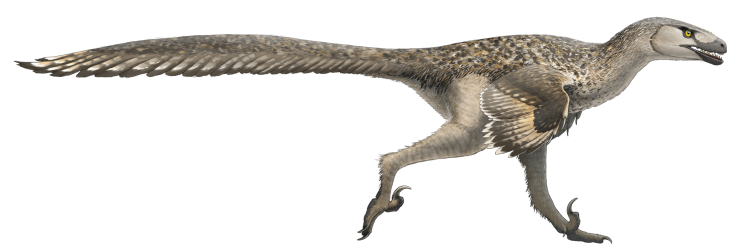 Dromaeosaurus